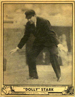 Former National League umpire Dolly Stark..